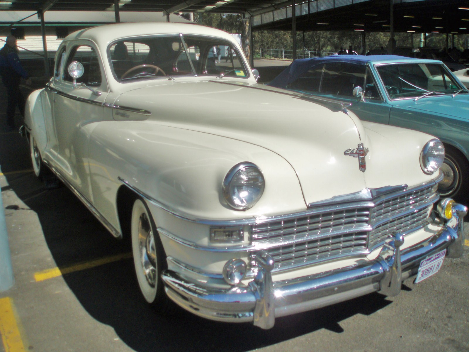 1948 Chrysler New Yorker Highlander Fluid Drive coupe. Taken at the 2010 New South Wales All Chrysler Day, held at Fairfield Showground, Prairiewood, Sydney.